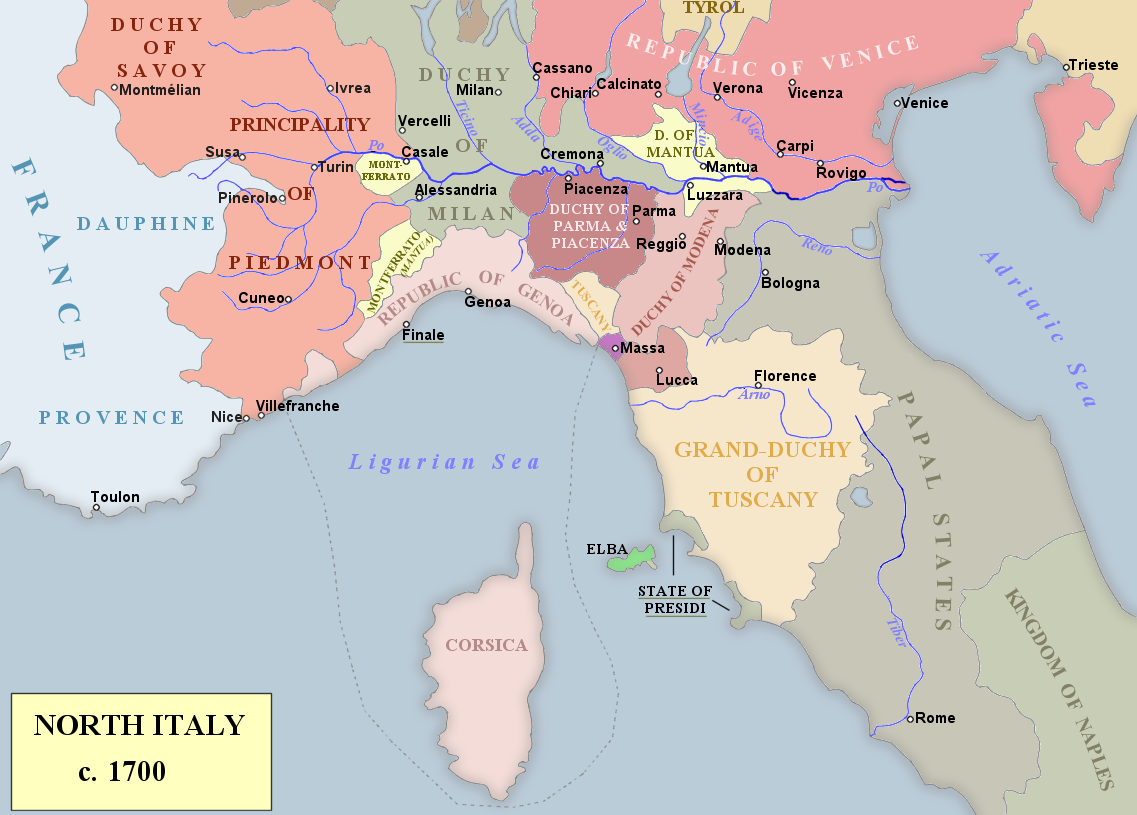 North Italy c. 1700